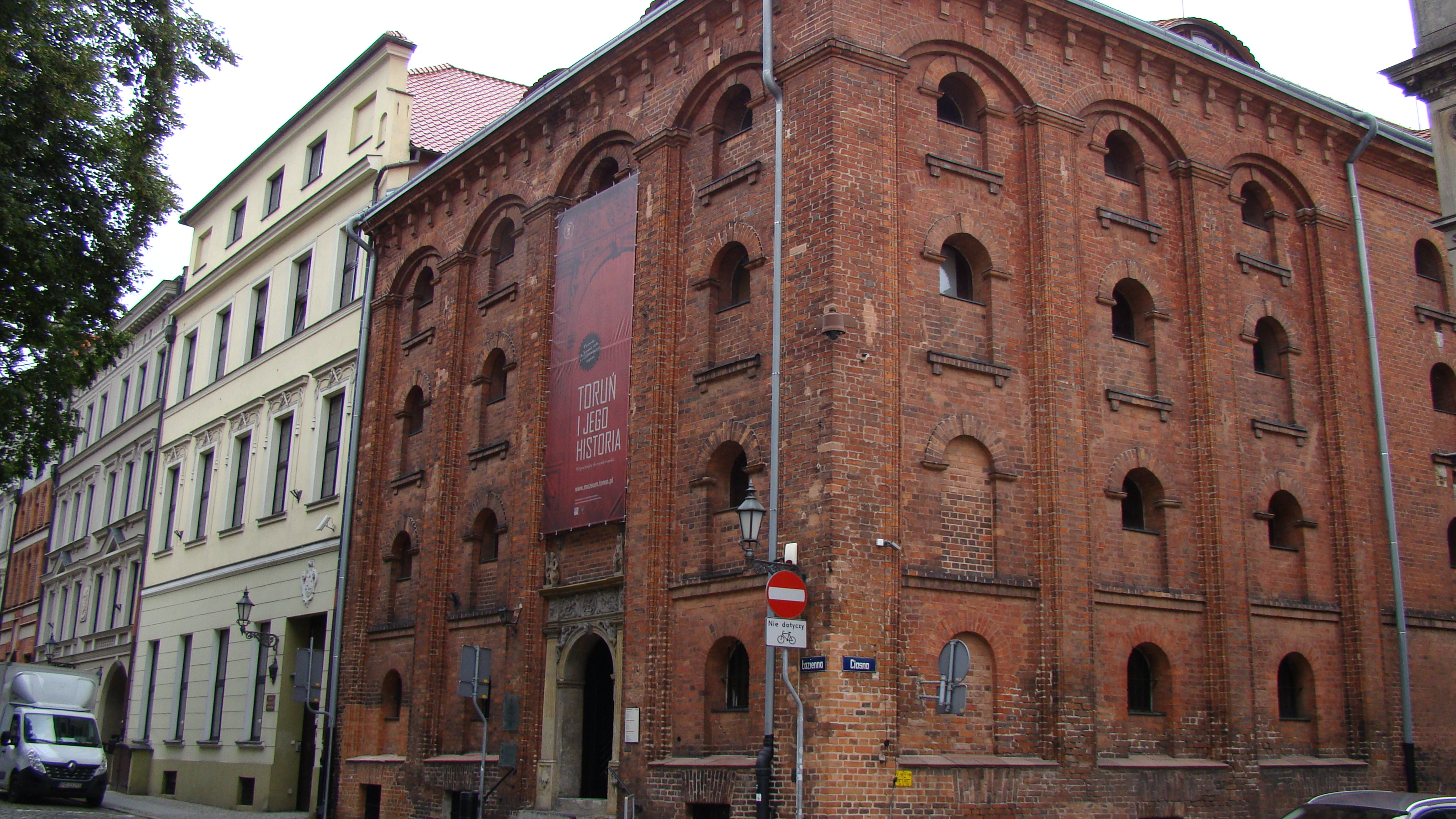 Esken House in Toruń